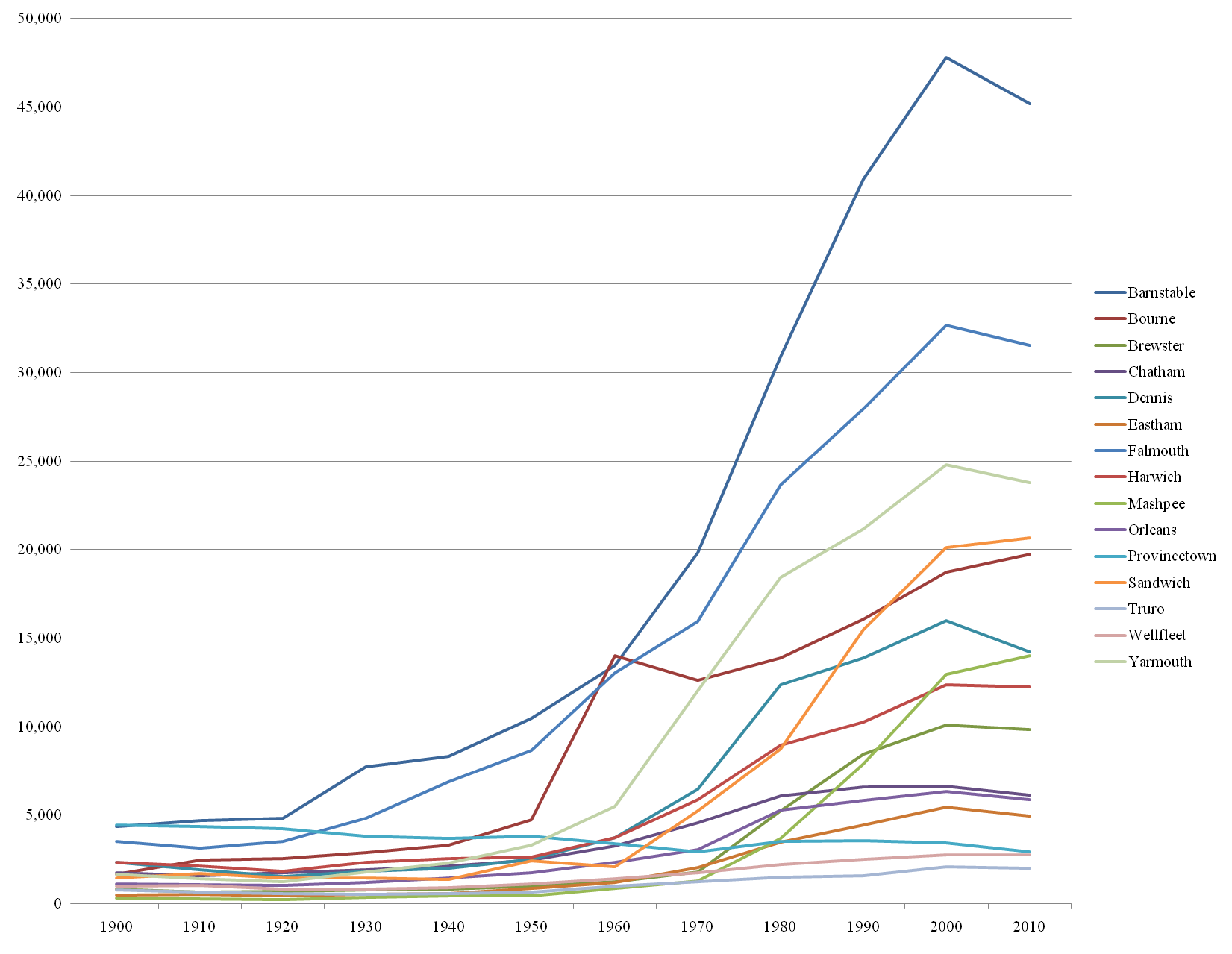 Barnstable County municipality populations (1900-2010).